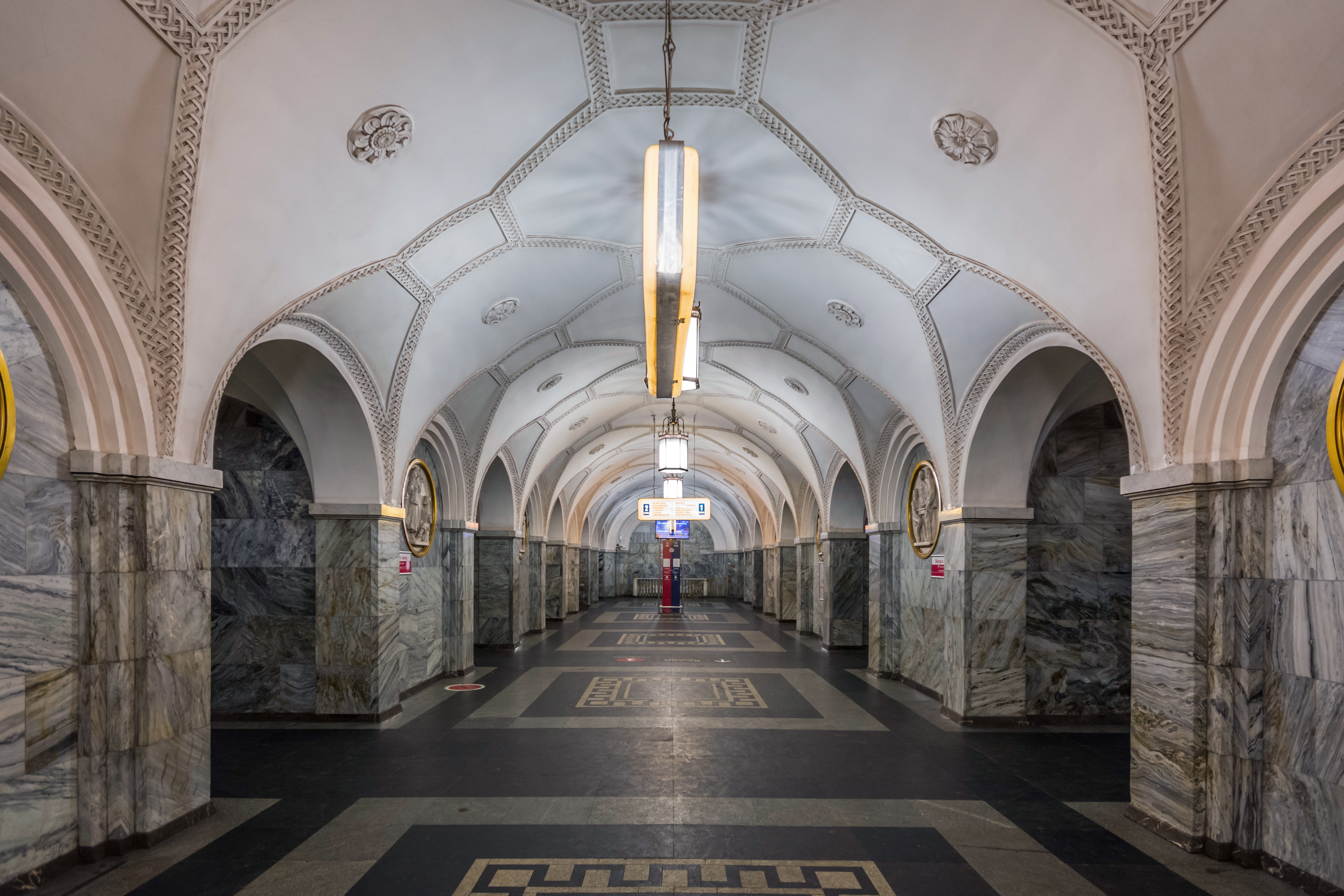 Park Kultury Station of Moscow Subway